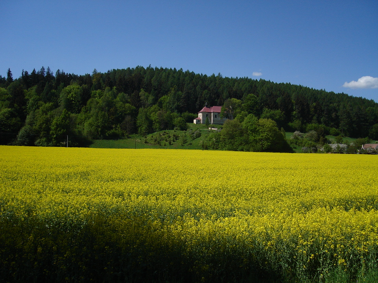 Church of the Annunciation in Luže ("Janovičky"), Chrudim District, Pardubice Region, Czech Republic.